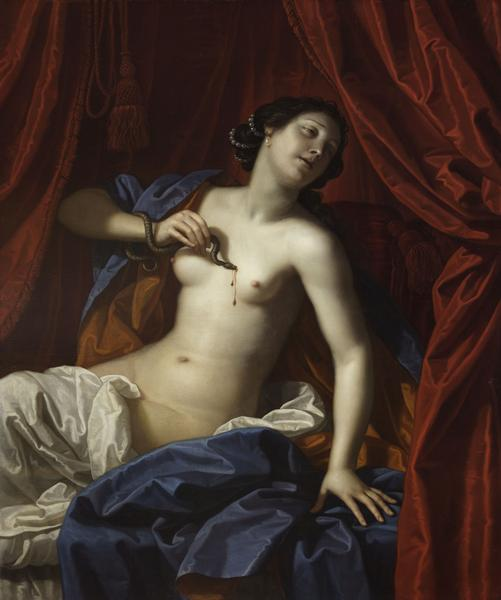 Death of Cleopatralabel QS:Len,"Death of Cleopatra"label QS:Les,"Muerte de Cleopatra"